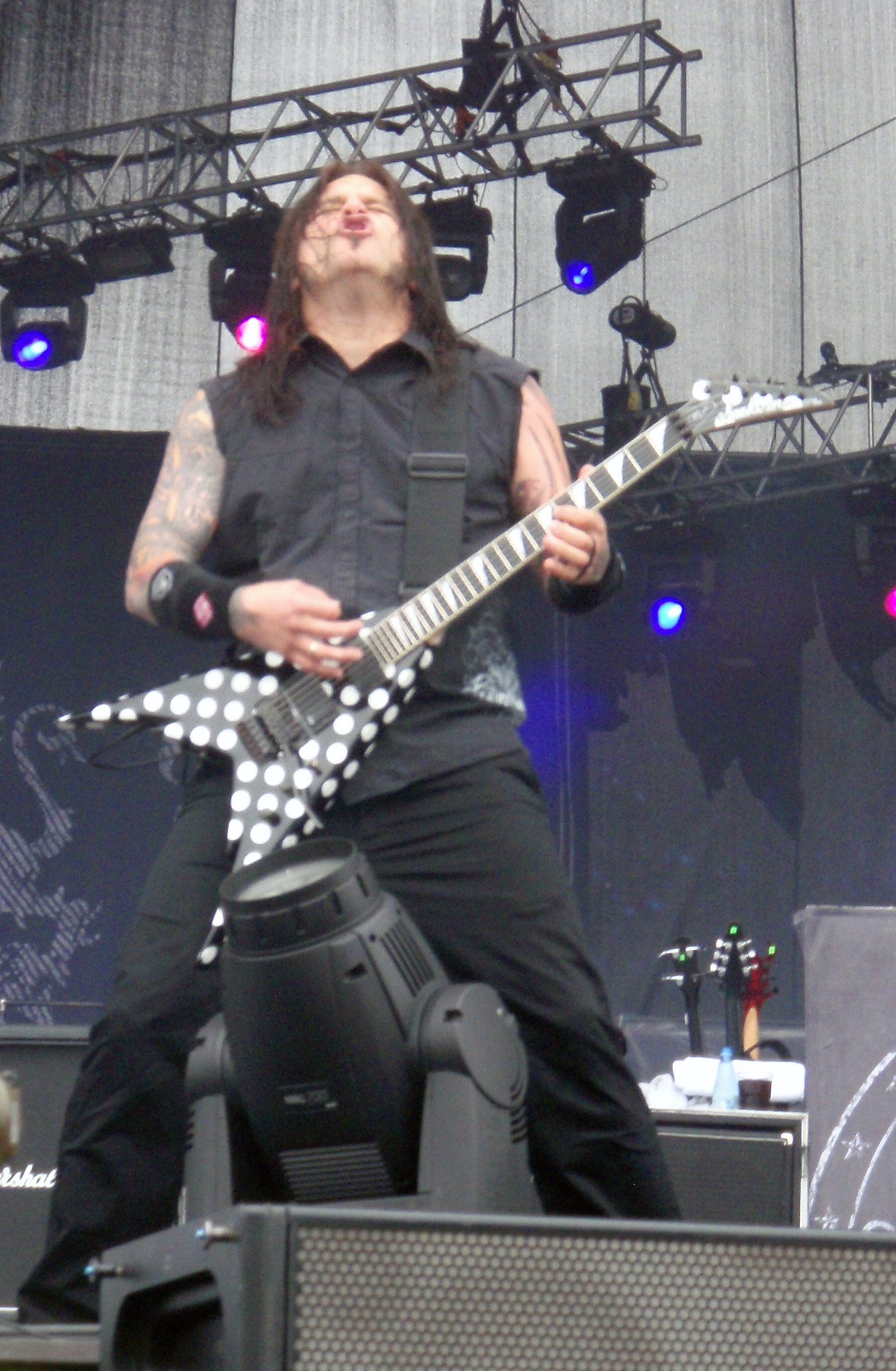 Phil Demmel from Machine Head performing at Sonisphere Festival in Kirjurinluoto, Pori, Finland.